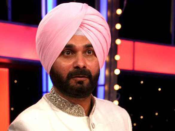 Navjot Singh Sidhu, Indian cricketer, politician in the television show 10 ka dum